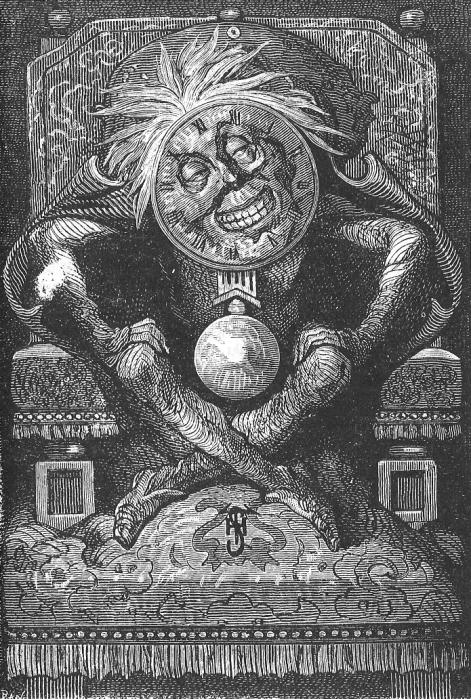 Original ilustration by Théophile Schuler to Jules Vernes novel "Master Zacharius" (fr. "Maître Zacharius ou l'horloger qui avait perdu son âme").